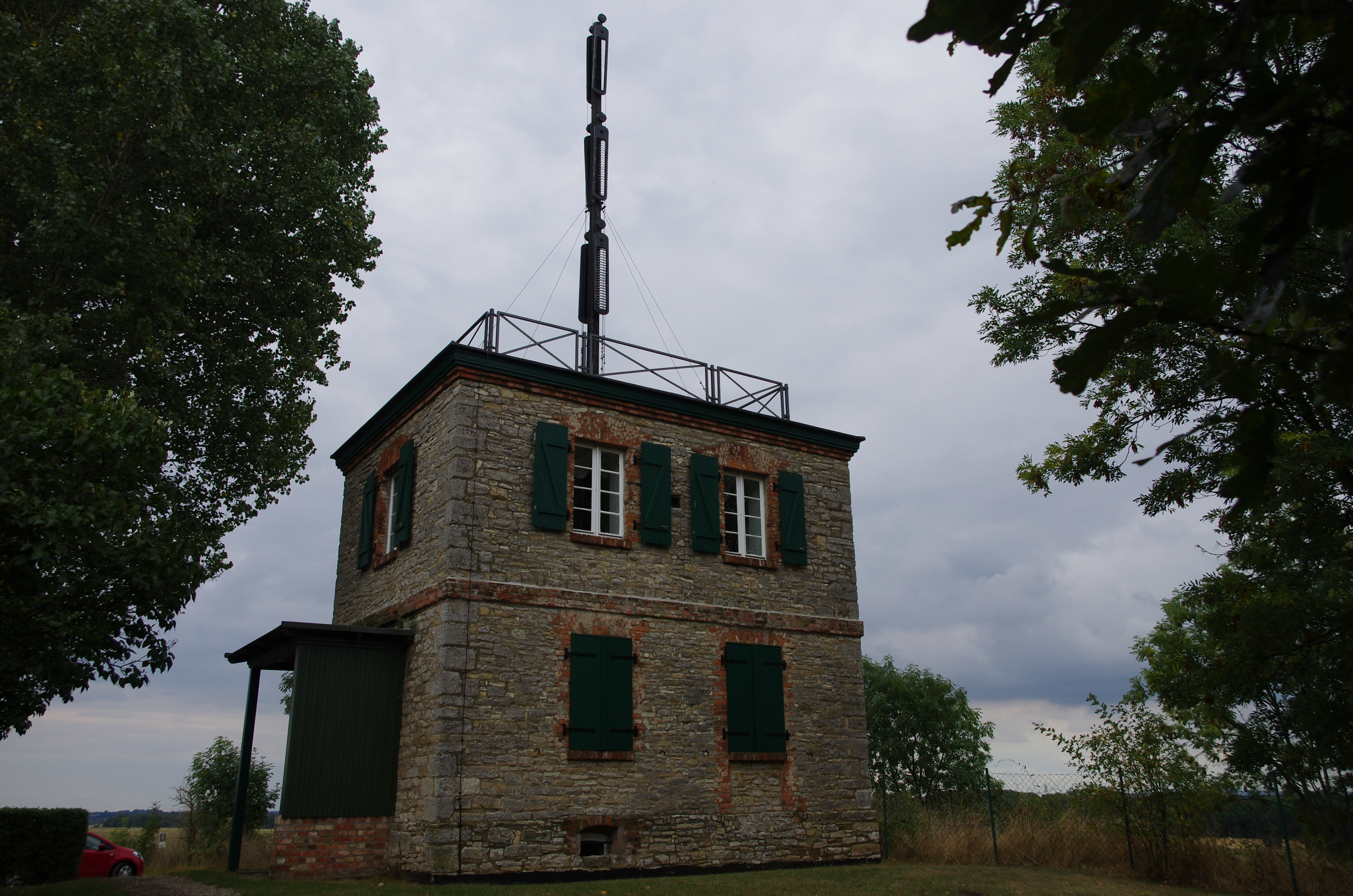 Am Großen Bruch in Sachsen-Anhalt. Die Telegrafenstation Neuwegersleben ist eine der letzten erhaltenen Station eines Telegrafennetzes in Sachsen Anhalt. Sie steht unter Denkmalschutz.